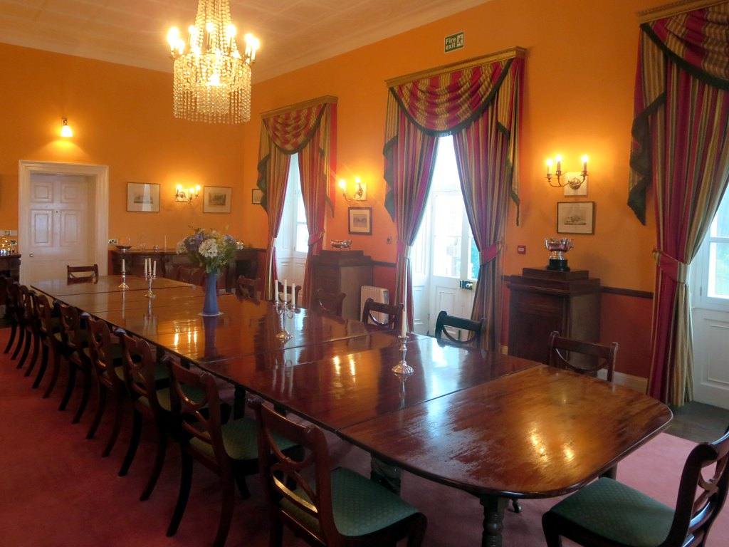 The formal dining room of Plantation House (1792) on St Helena Island retains the elegance of bygone years.